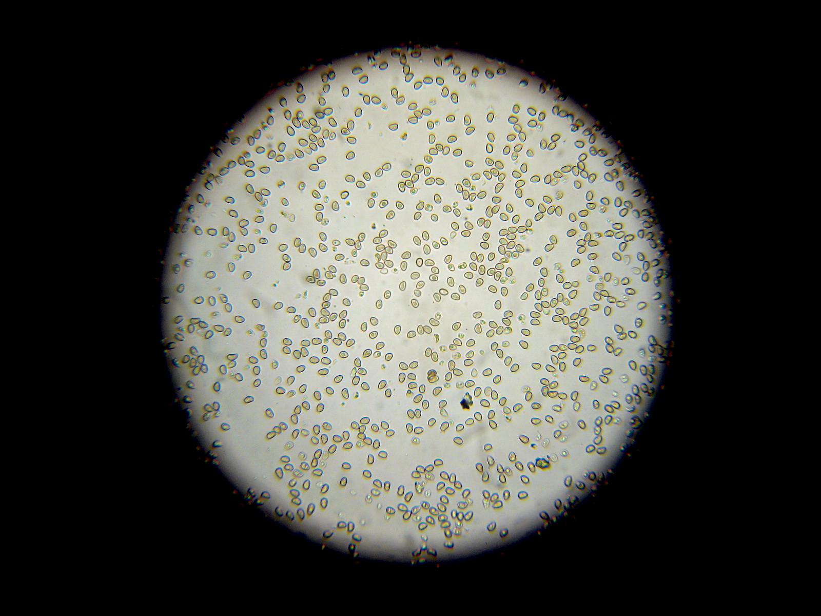 Simocybe centunculus (Fries) Karsten Location: Wayne National Forest, Hocking county, Ohio, USA Observation Notes: These little brown guys were growing from the bark of a wild grape vine under dense vegetation. Image Notes: spores 400x For more information about this, see the observation page at Mushroom Observer.